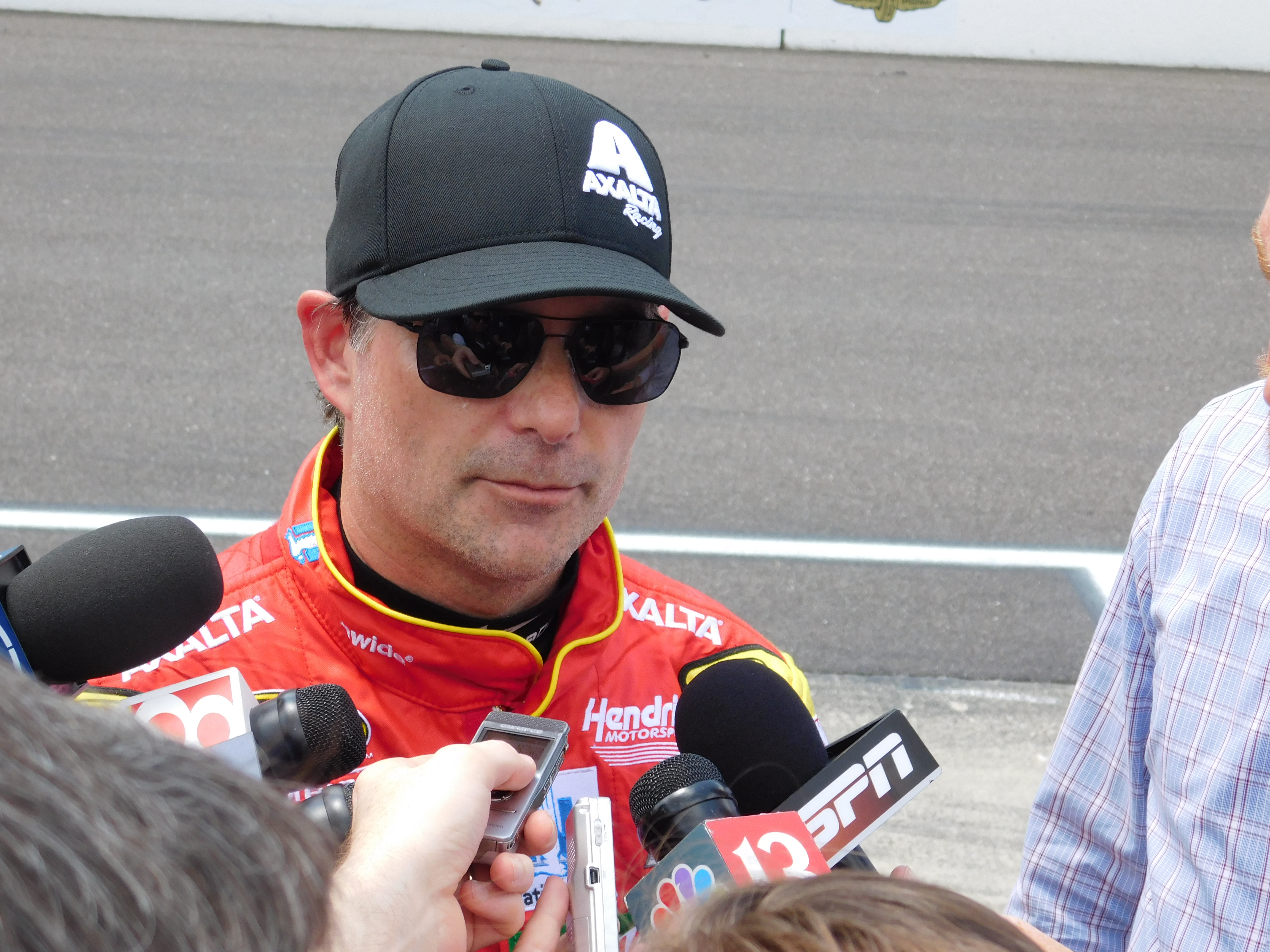 Jeff Gordon comes out of retirement to sub for Dale Earnhardt Jr. at Indianapolis Motor Speedway in 2016.